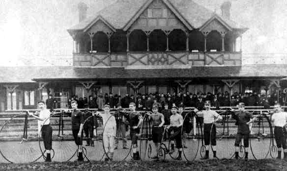 Cyclists at a race meeting, Long Eaton Recreation Ground, Station Road?, Long Eaton, 1885 ... thought to be where the stadium is today